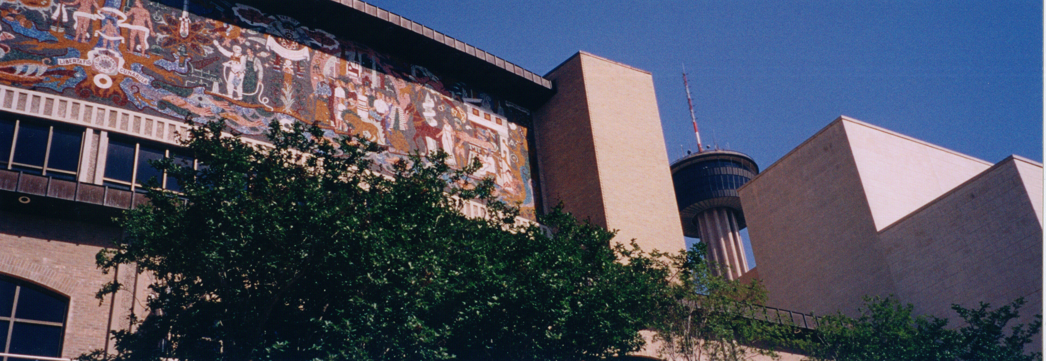 A view from the San Antonio Riverwalk, Texas, in 2003. This photo depicts in the foreground the Lila Cockrell Theater and its Juan O'Gorman mosaic, and in the background the Tower of the Americas. Summary San Antonio, in 2003. I took this photo myself. It depicts in the foreground the Lila Cockrell Theater and its Juan O'Gorman mosaic, and in the background the Tower of the Americas.